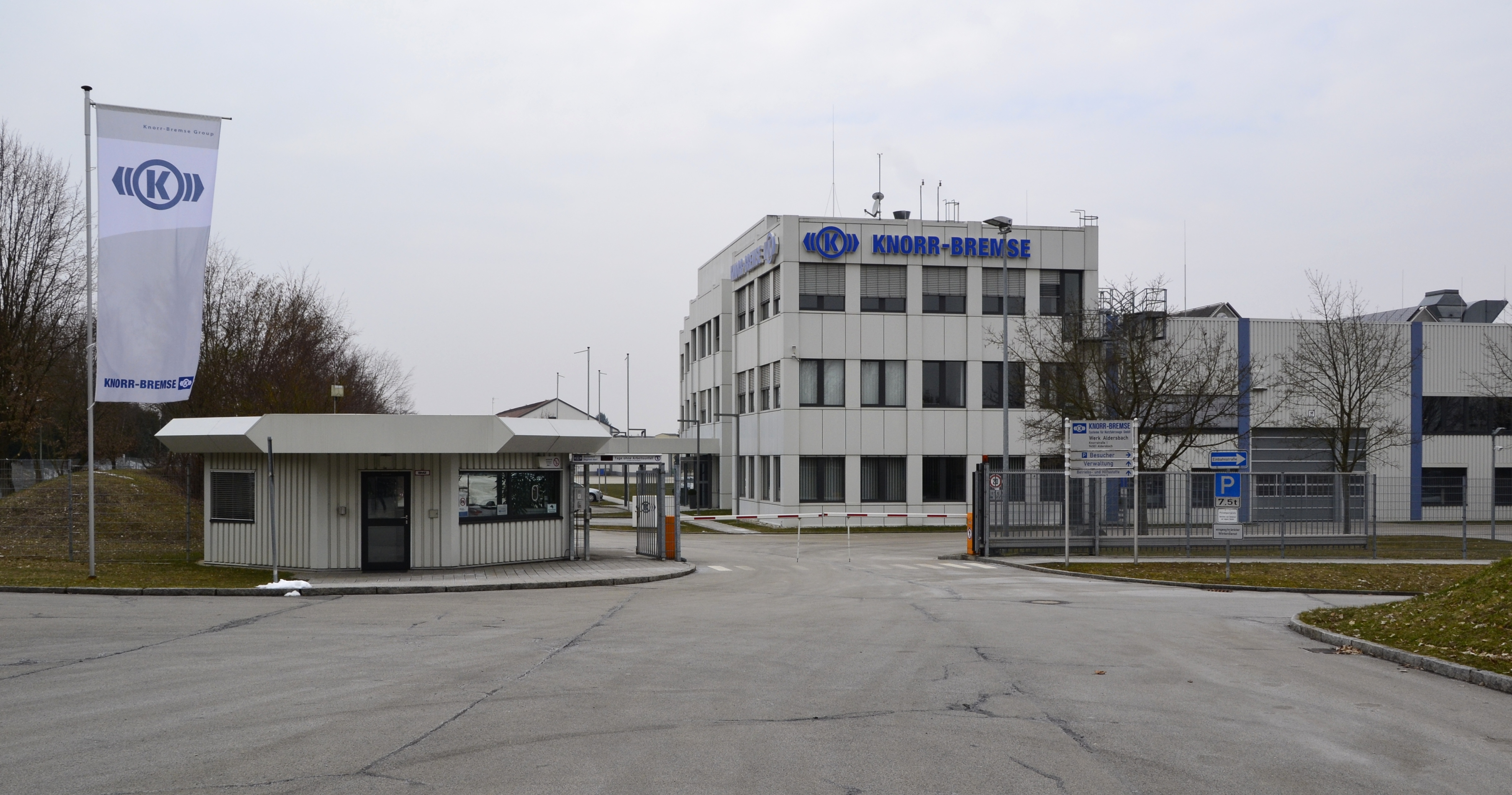 Knorr-Bremse-Niederlassung in Aldersbach, Niederbayern.